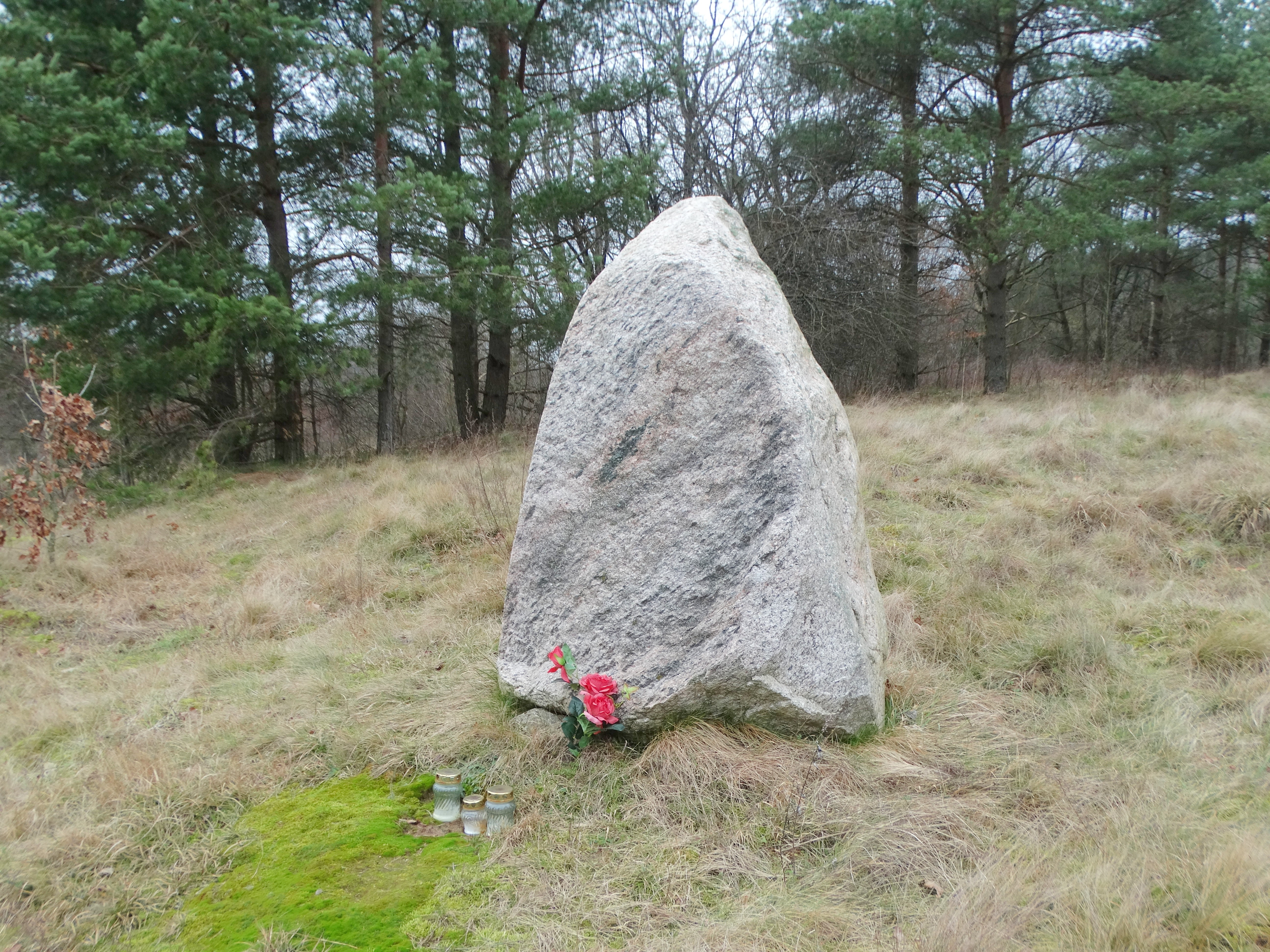 Baubliai, barrow cemetery, Kretinga District, Lithuania